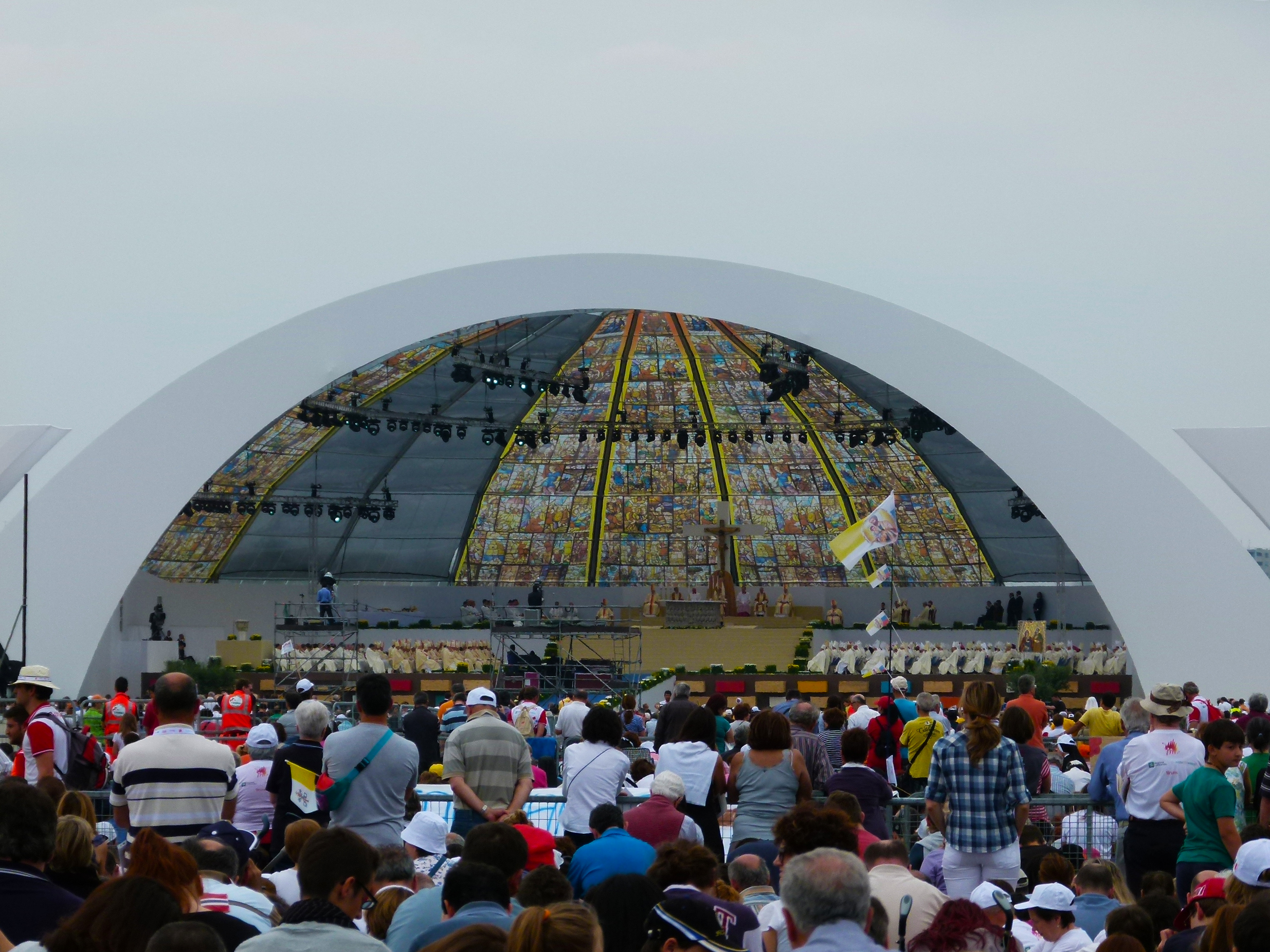 A moment of the Holy Mass celebrated by pope Benedict XVI at Milan-Bresso Airport, for the VII World Meeting of Families - Milan 2012